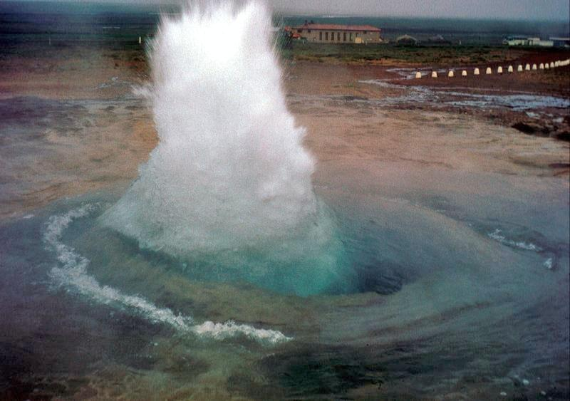 Geysir in Iceland on 25 Jul 1972. Picture taken and uploaded by Roger McLassus.